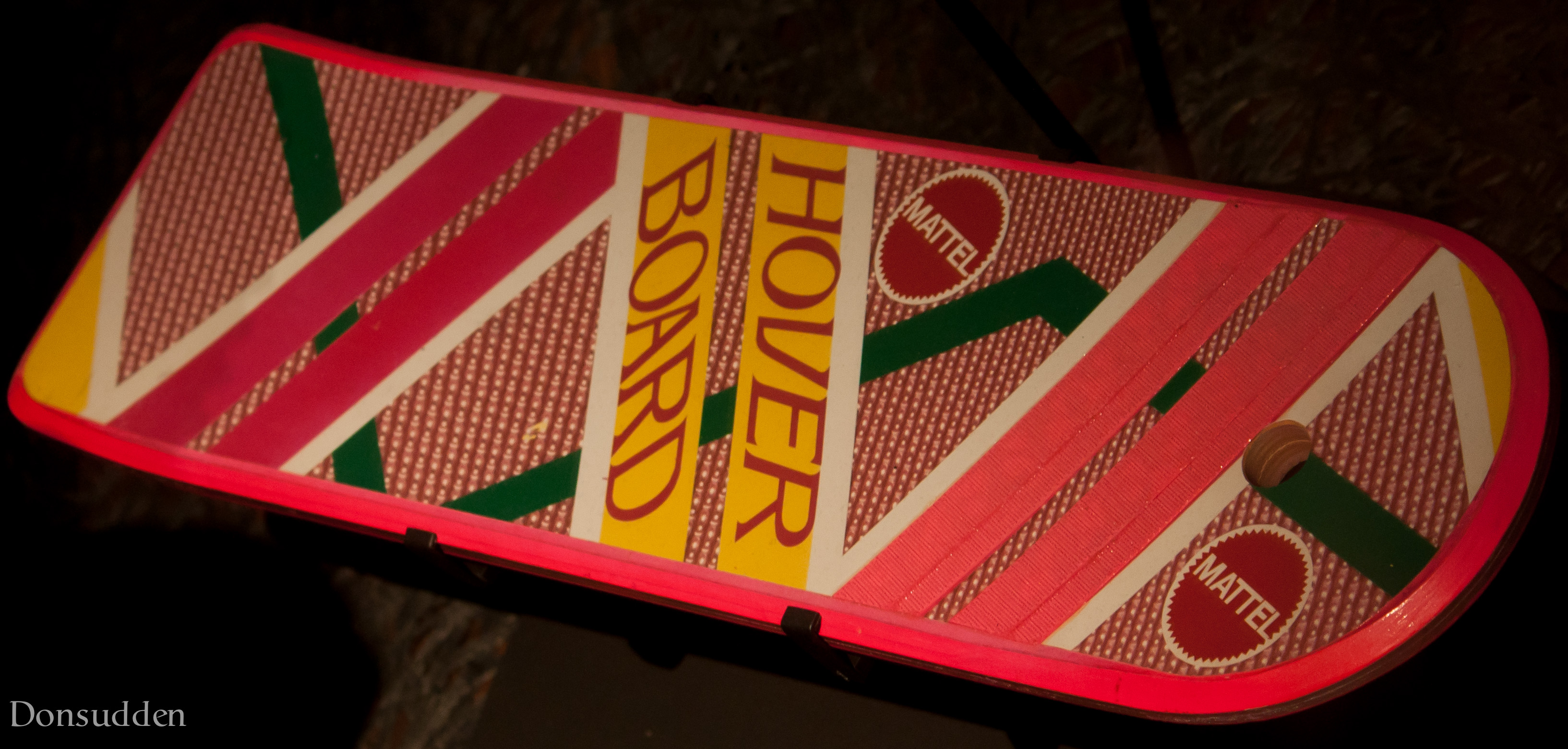 A Hoverboard (or hover board) is a fictional hovering board used for personal transportation